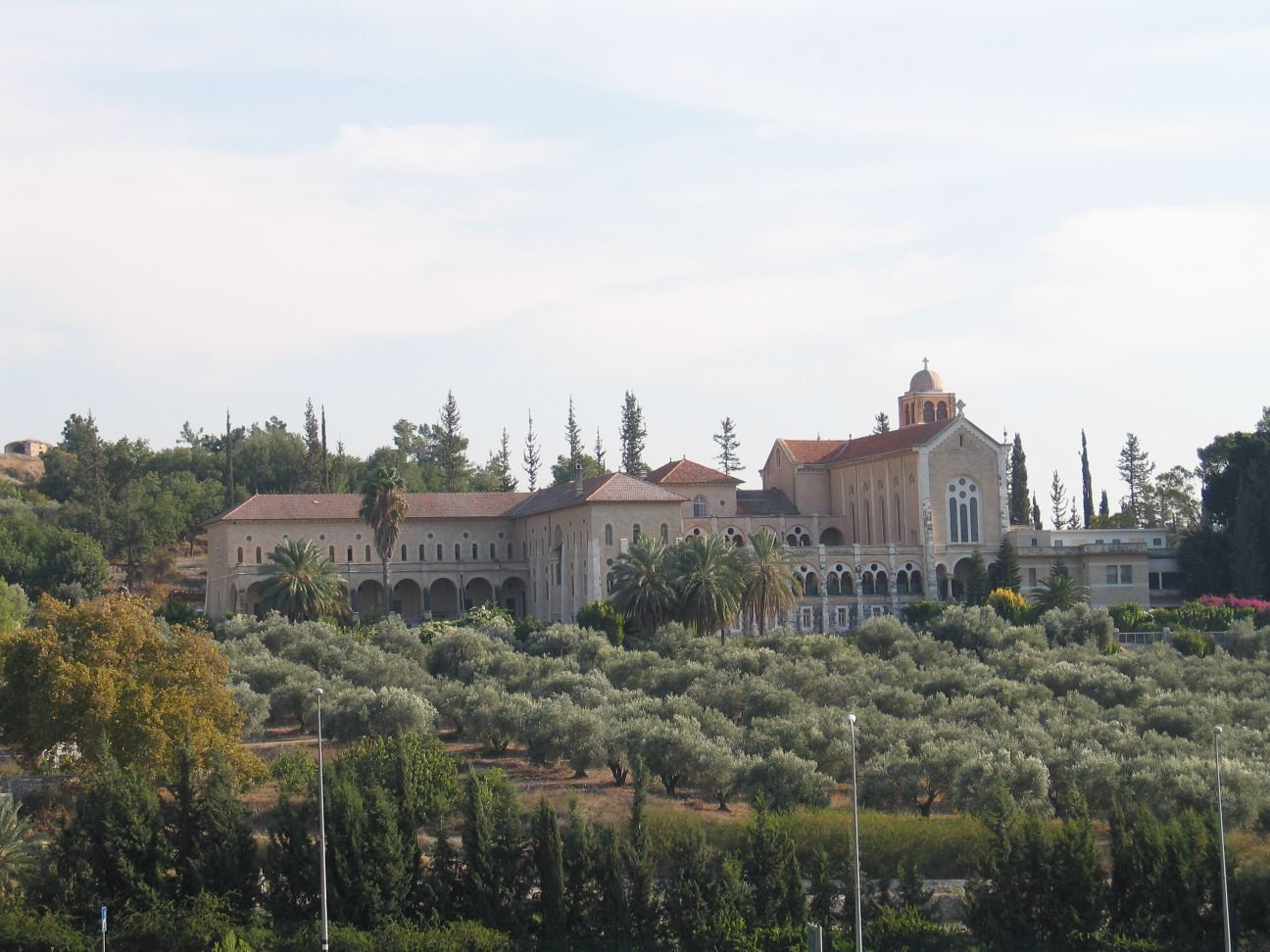 Description: The Trappists Monastery at Latrun, Israel. Photo by me, User:Bukvoed.